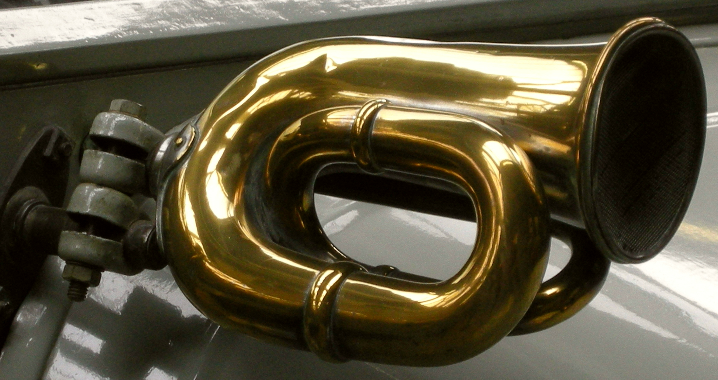 Vintage brass air horn or motor horn in transport gallery at Bradford Industrial Museum, Bradford, West Yorkshire, England. 53.48'.40".N; 1.43'.16".W.